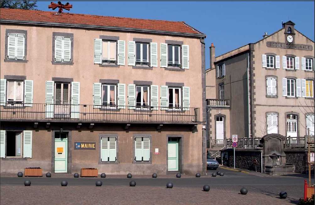 Town hall and school of Mozac (Puy-de-Dôme, France).